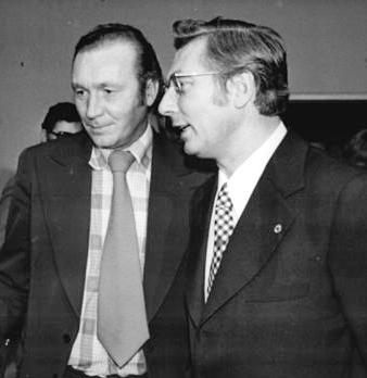 Frank Beyer & Werner Lamberz in April 1975